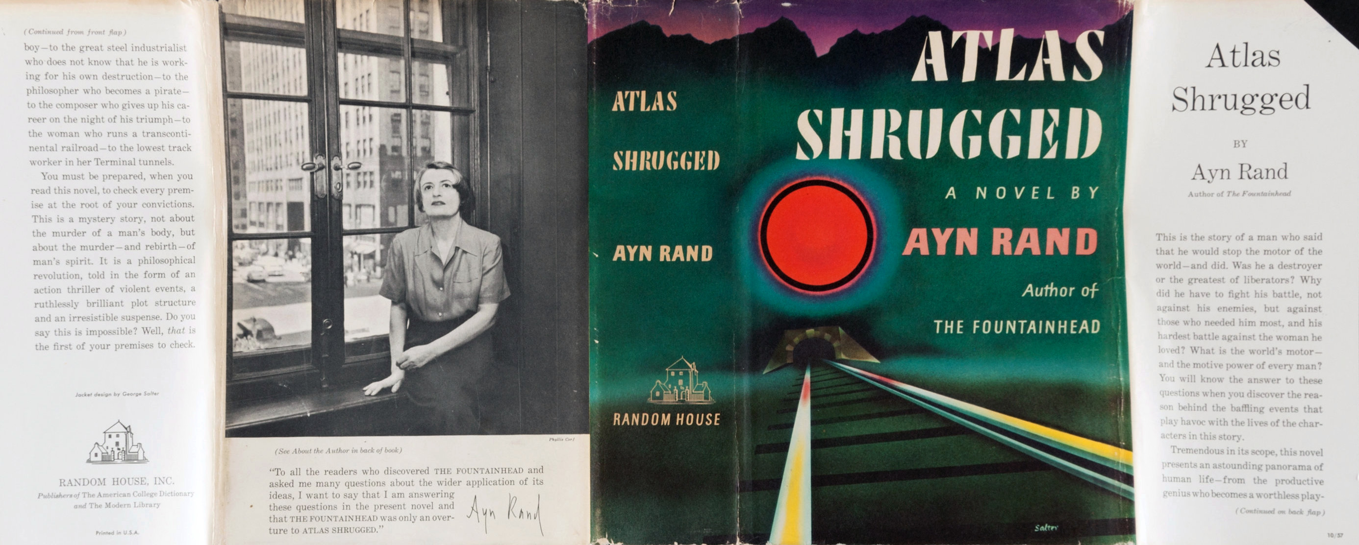 First-edition dust jacket of the 1957 novel Atlas Shrugged by the Russian-American writer Ayn Rand.